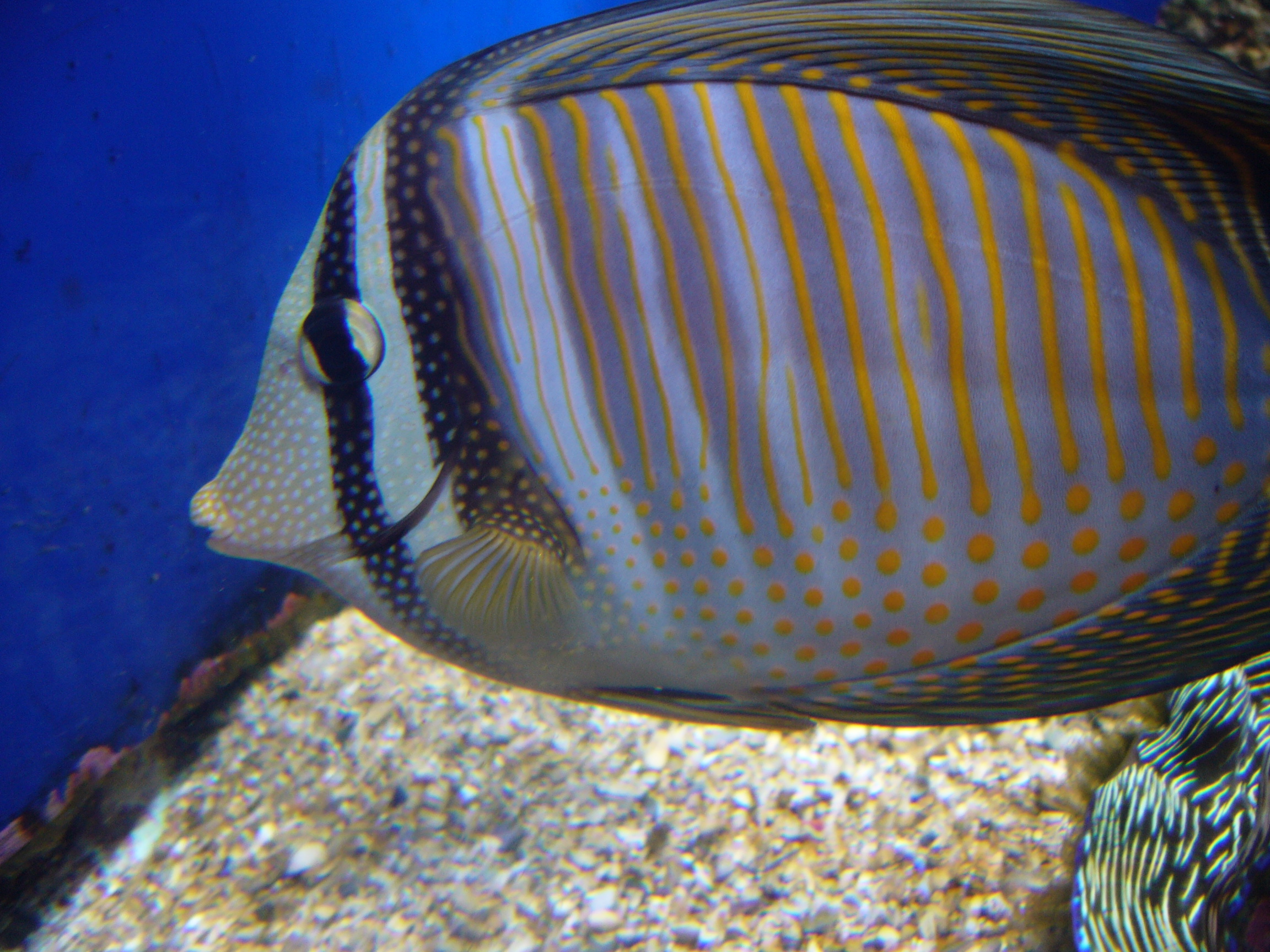 Zebrasoma desjardinii (Red Sea sailfin tang) in Sala Humboldt of Aquarium Finisterrae (House of the Fishes), in Corunna, Galicia, Spain.